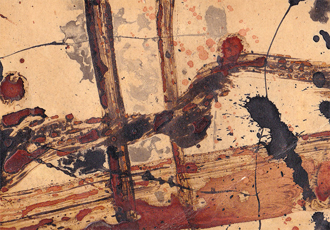 Filmstill IKONOSTASIS I